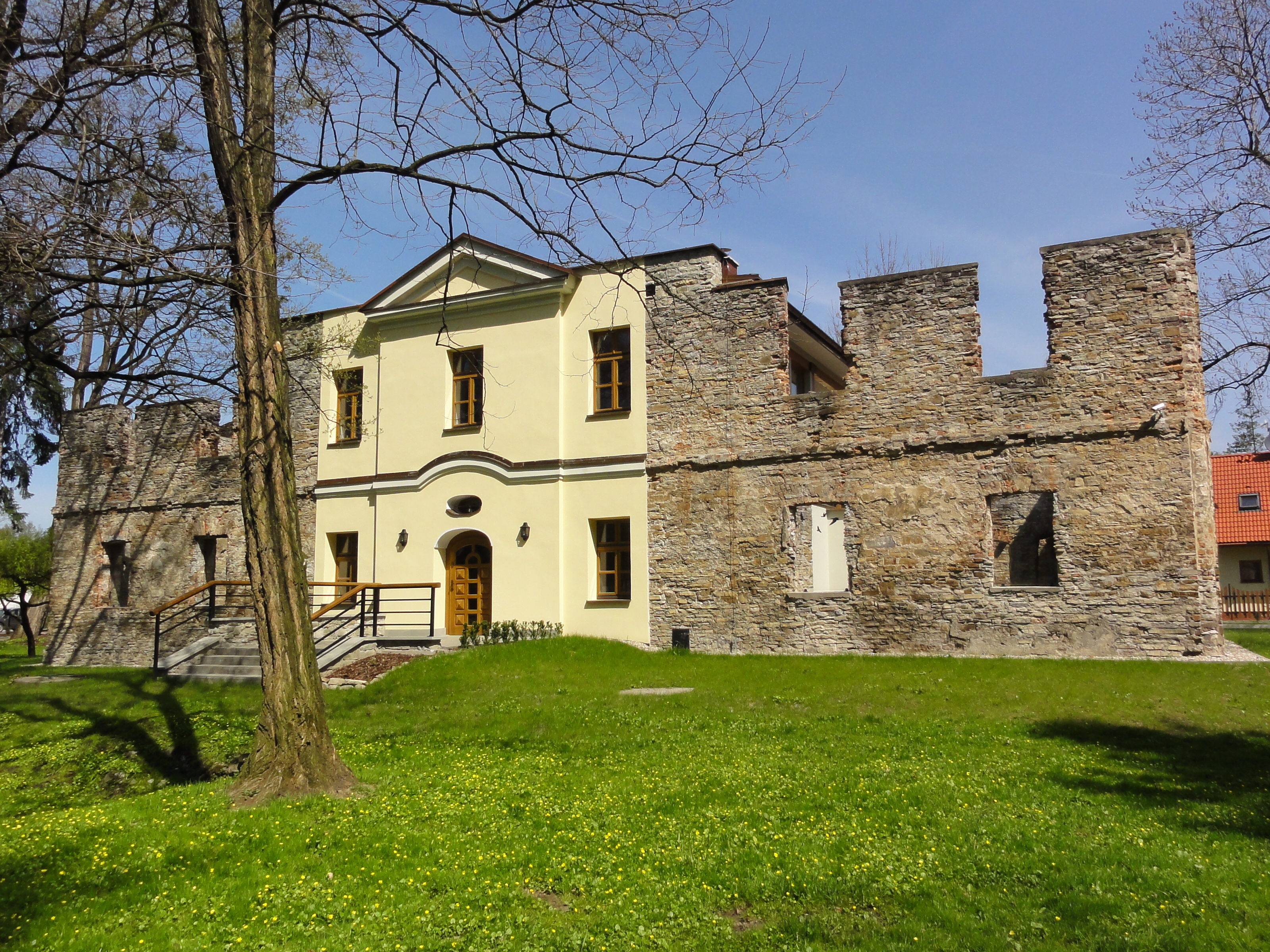 Manor house of Kossak family in Górki Wielkie